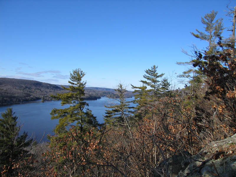 The upper Gatineau River